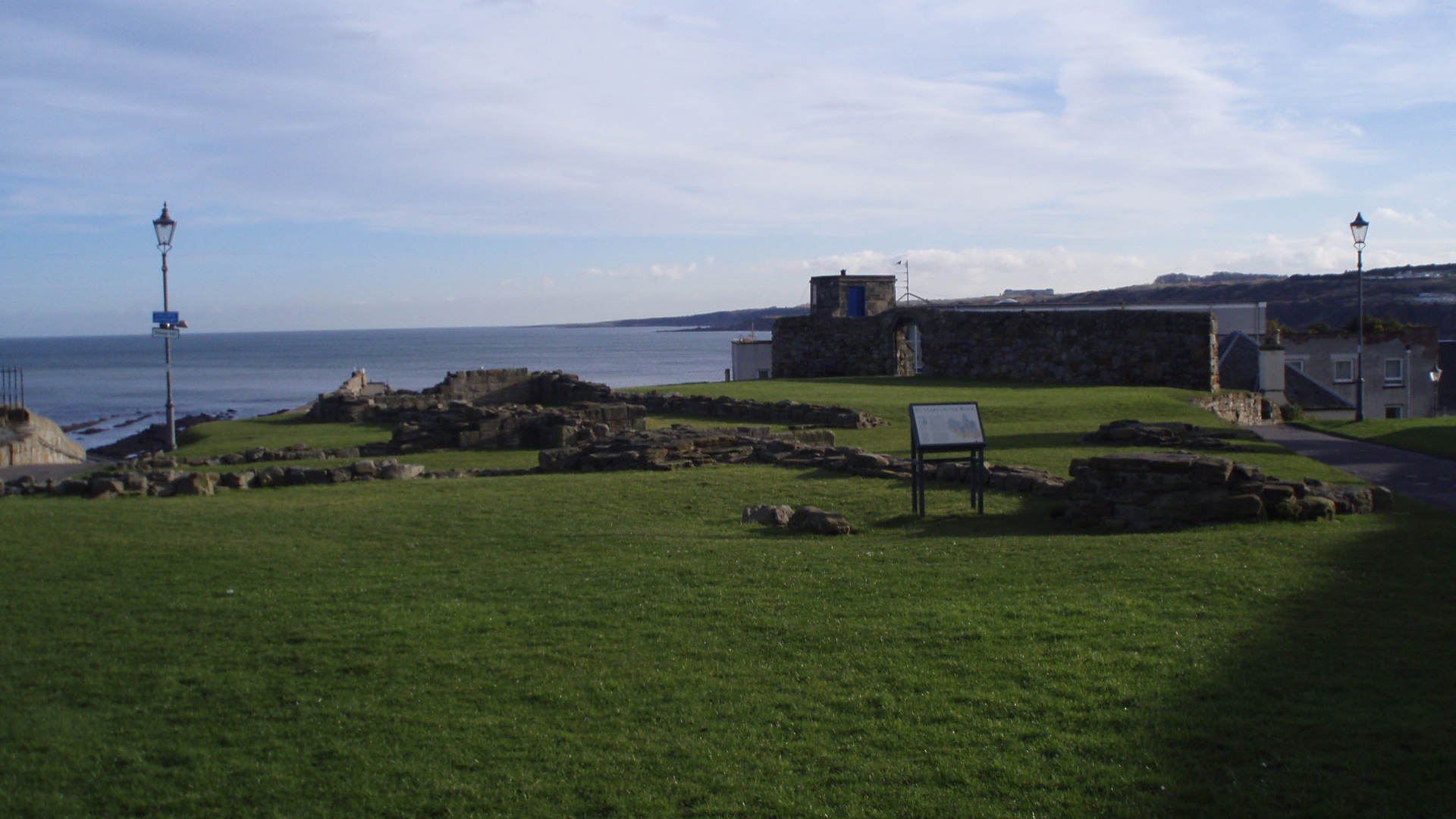 Photo of the ruins of the Church of St Mary on the Rock, St Andrews, Scotland